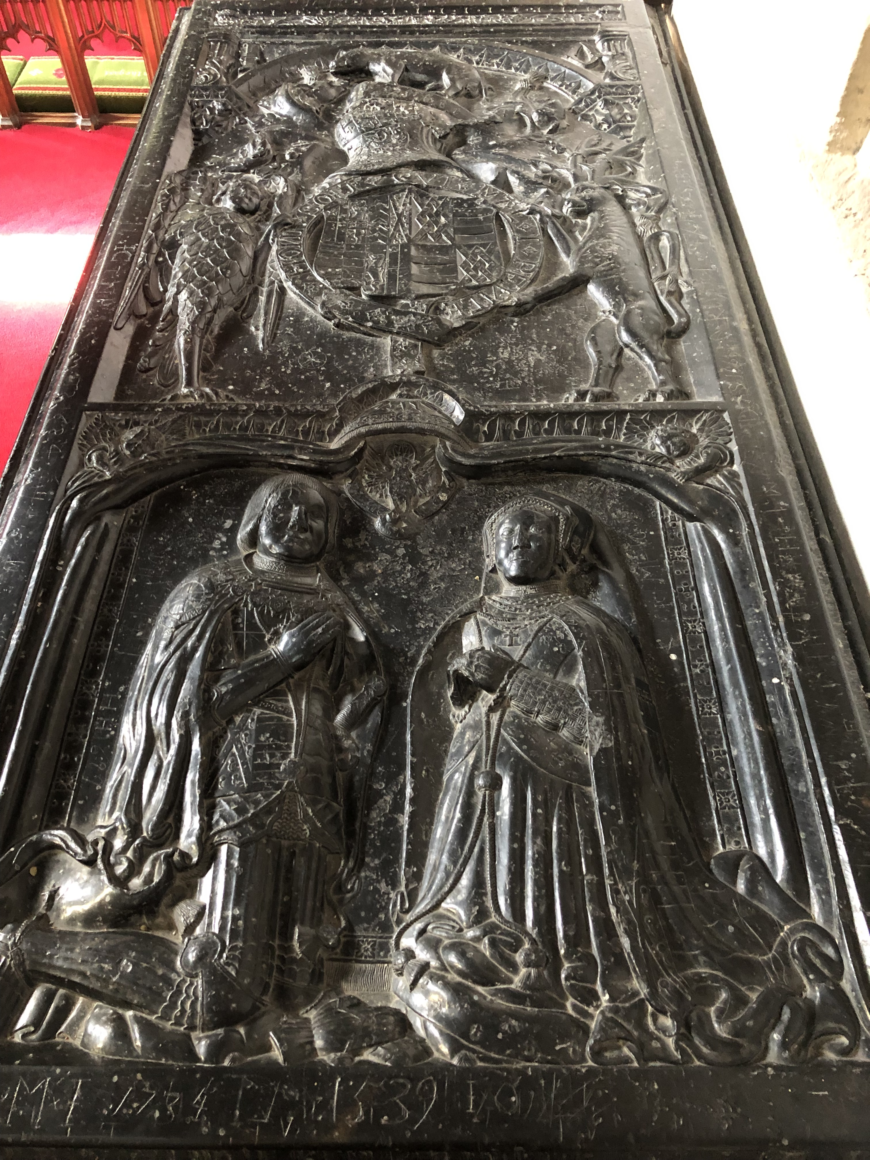 John De Vere, 15th Earl of Oxford Funerary Monument in St Andrew's Church, Earls Colne, Essex